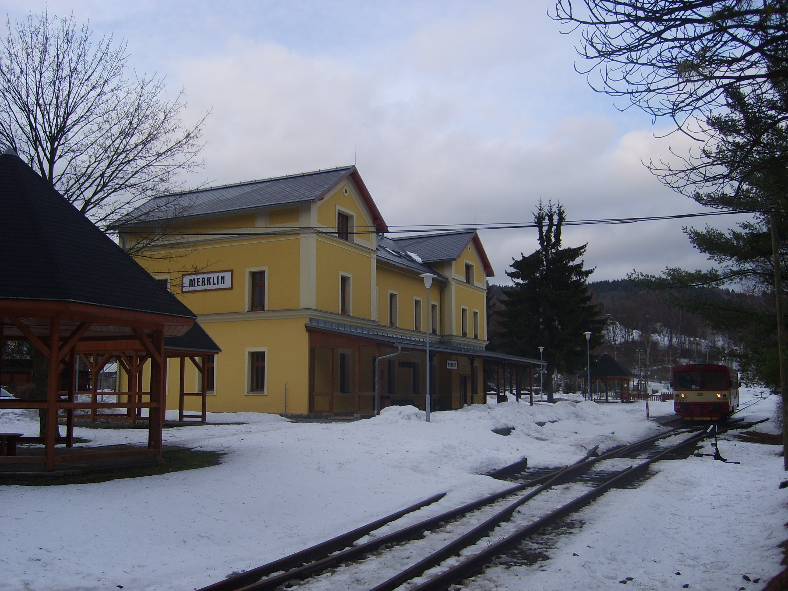 Diesel railcar 810 548-8 at a train station in Merklín at the end of a railroad line from Karlovy Vary.